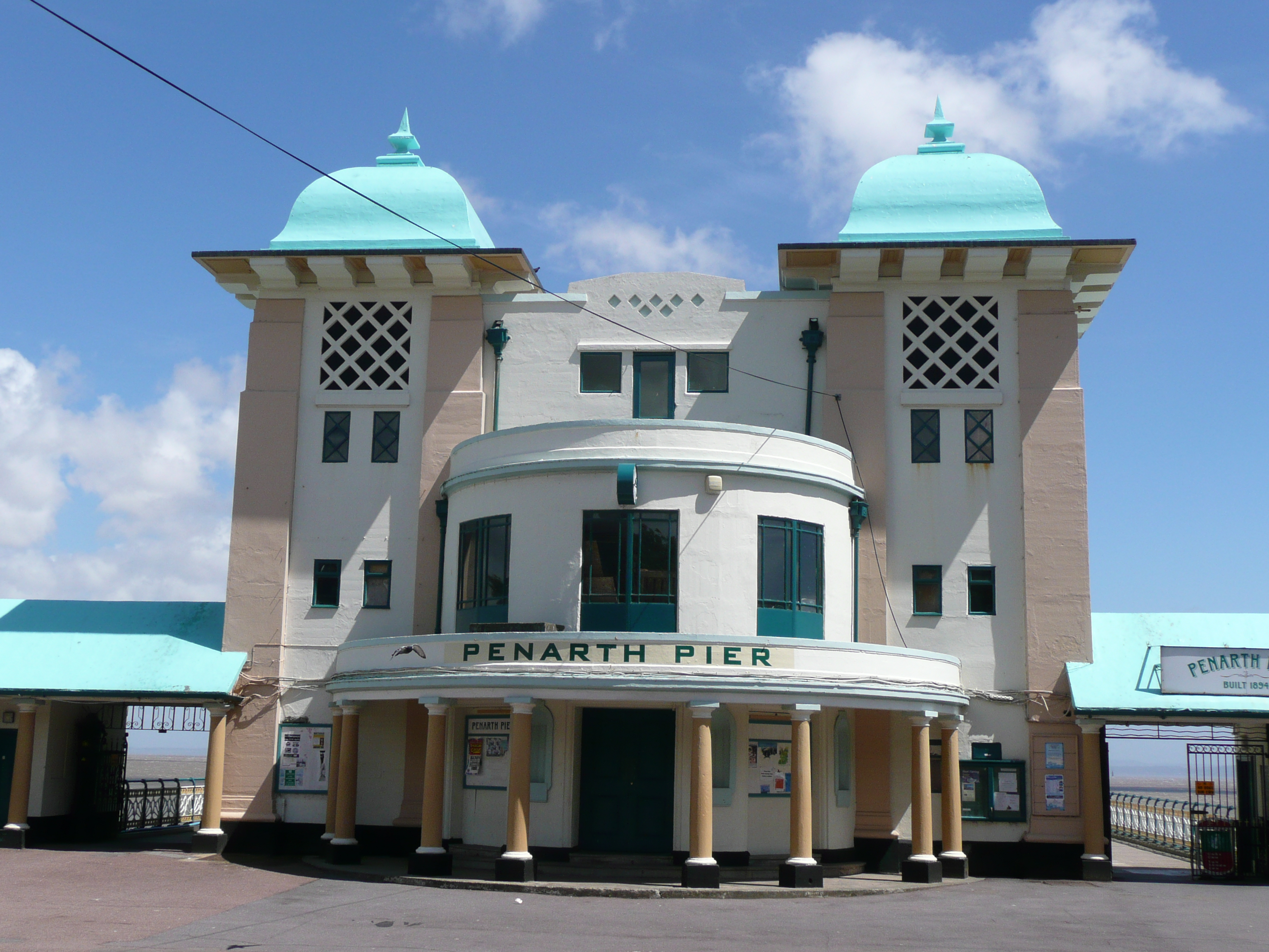 Penarth pier frontage